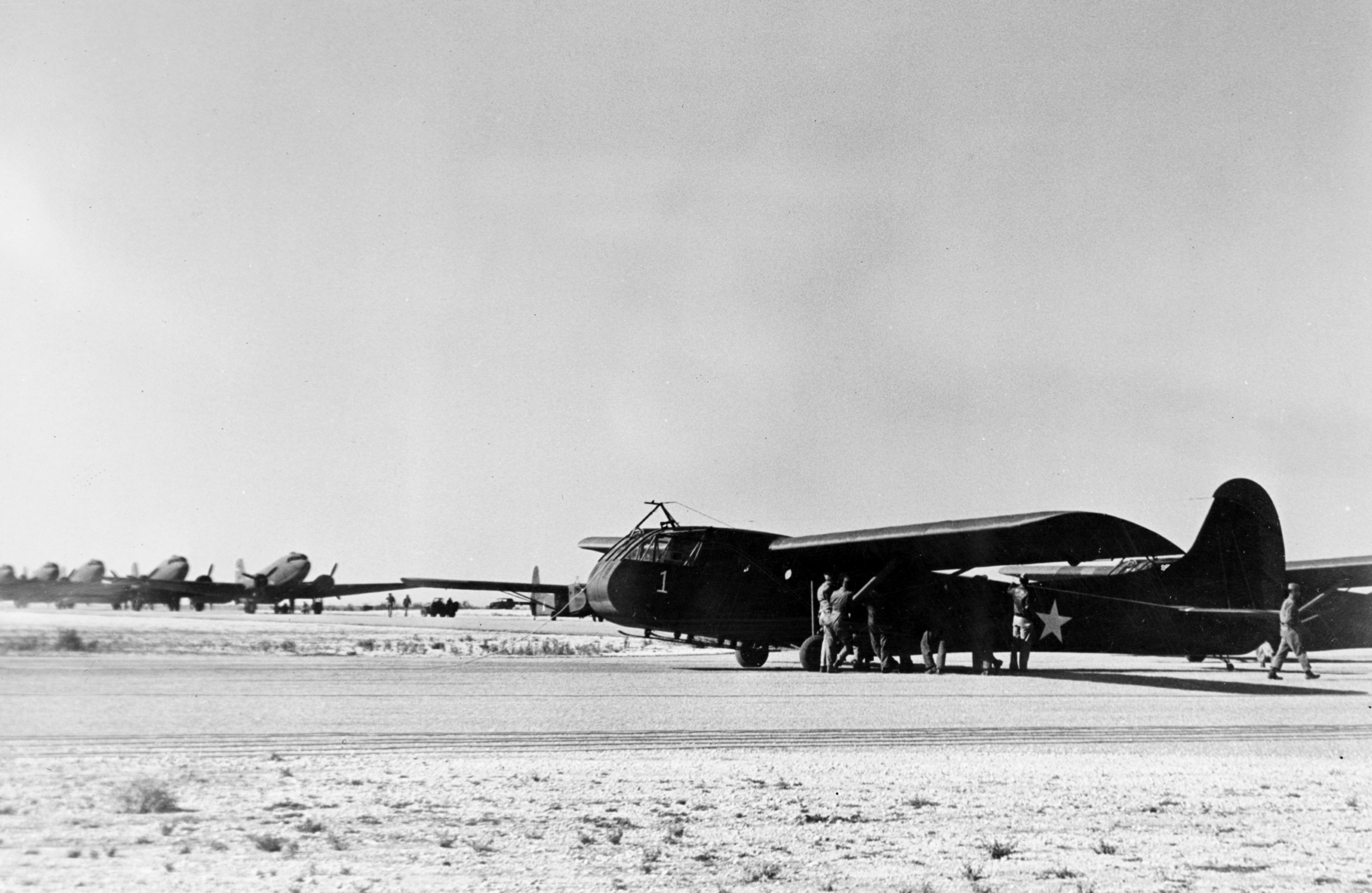 Original caption: "U.S. Airborne Infantry troops loading a transport glider (Waco CG-4) which will be used in maneuvers in the southwestern United States."